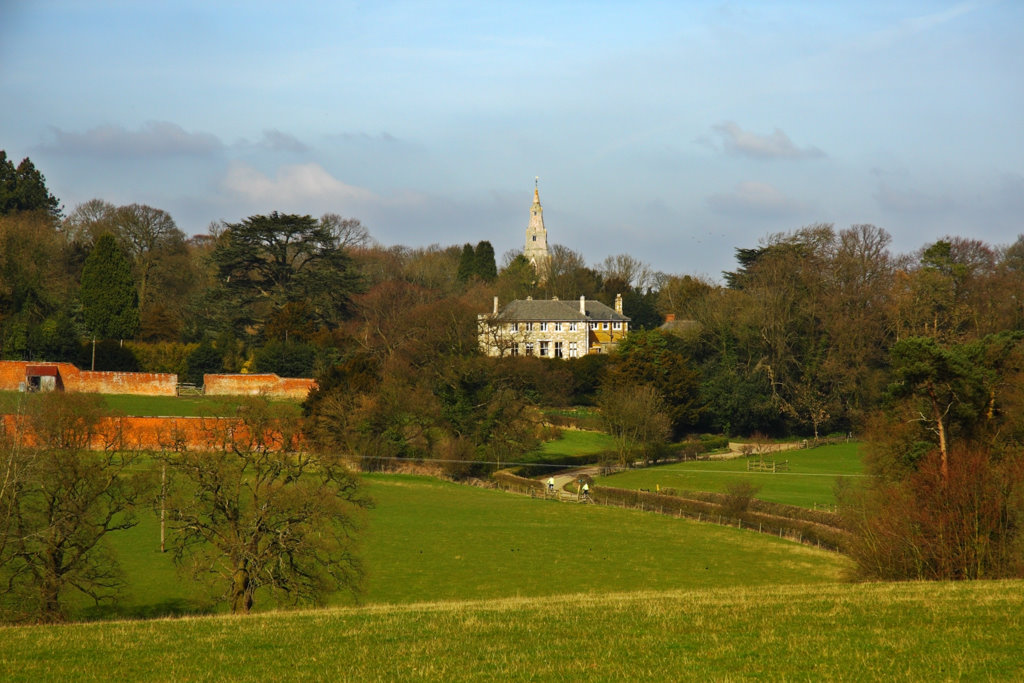 Hall and parish church at Little Dalby, Leicestershire (originally posted in GWUK)